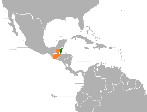 Map showing location of Belize and Guatemala